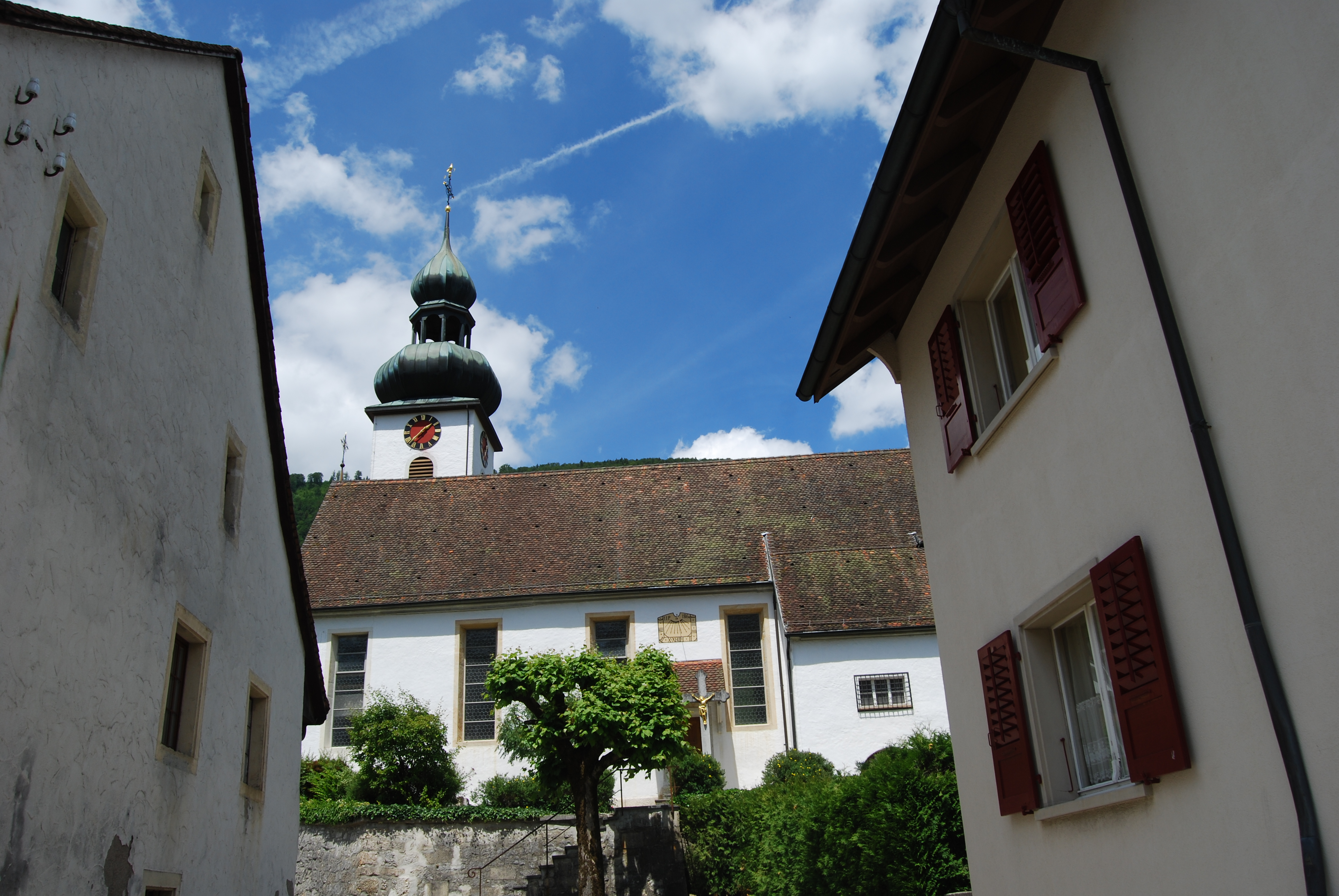 Church of Holderbank, canton of Solothurn, Switzerland